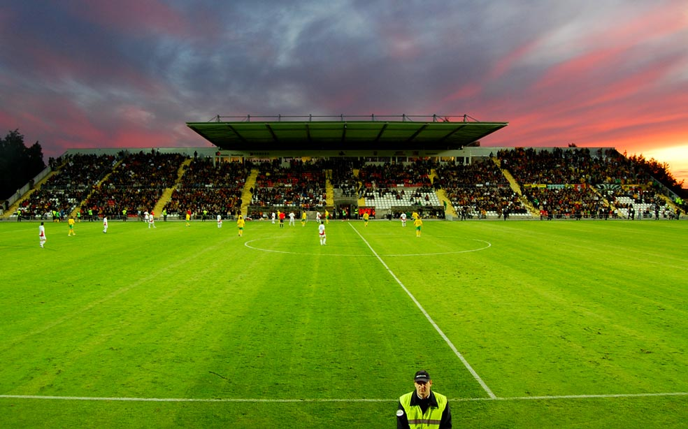 ARVI Arena Mariampole